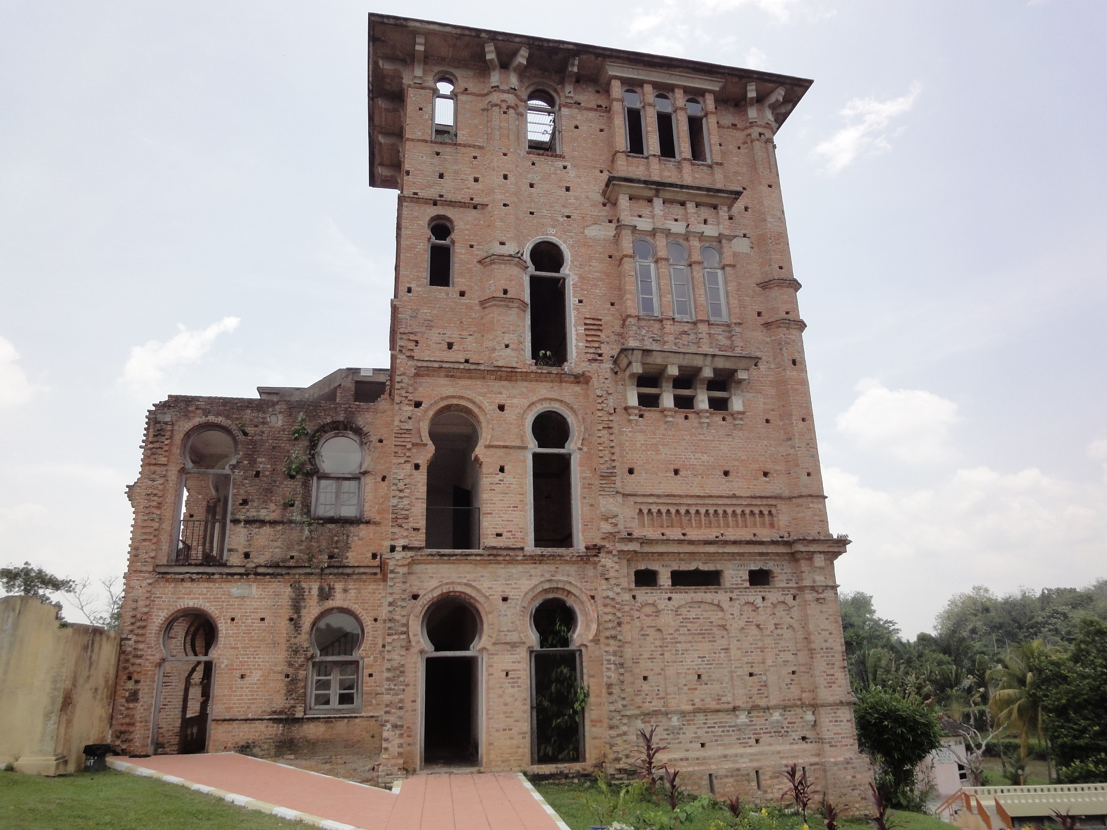 The half-built main building of Kellie's Castle